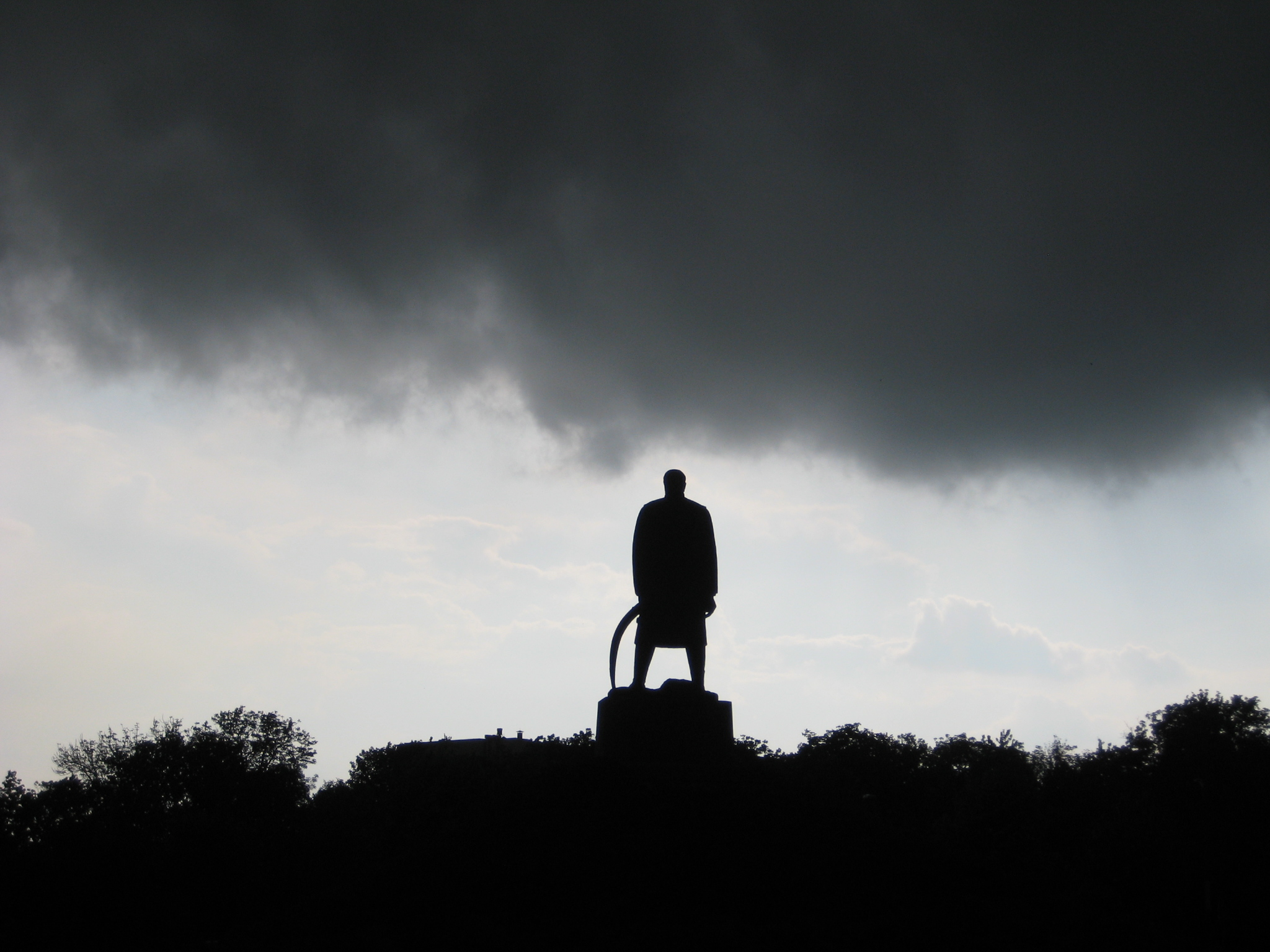 Karađorđe Petrović monument in Belgrade, Serbia